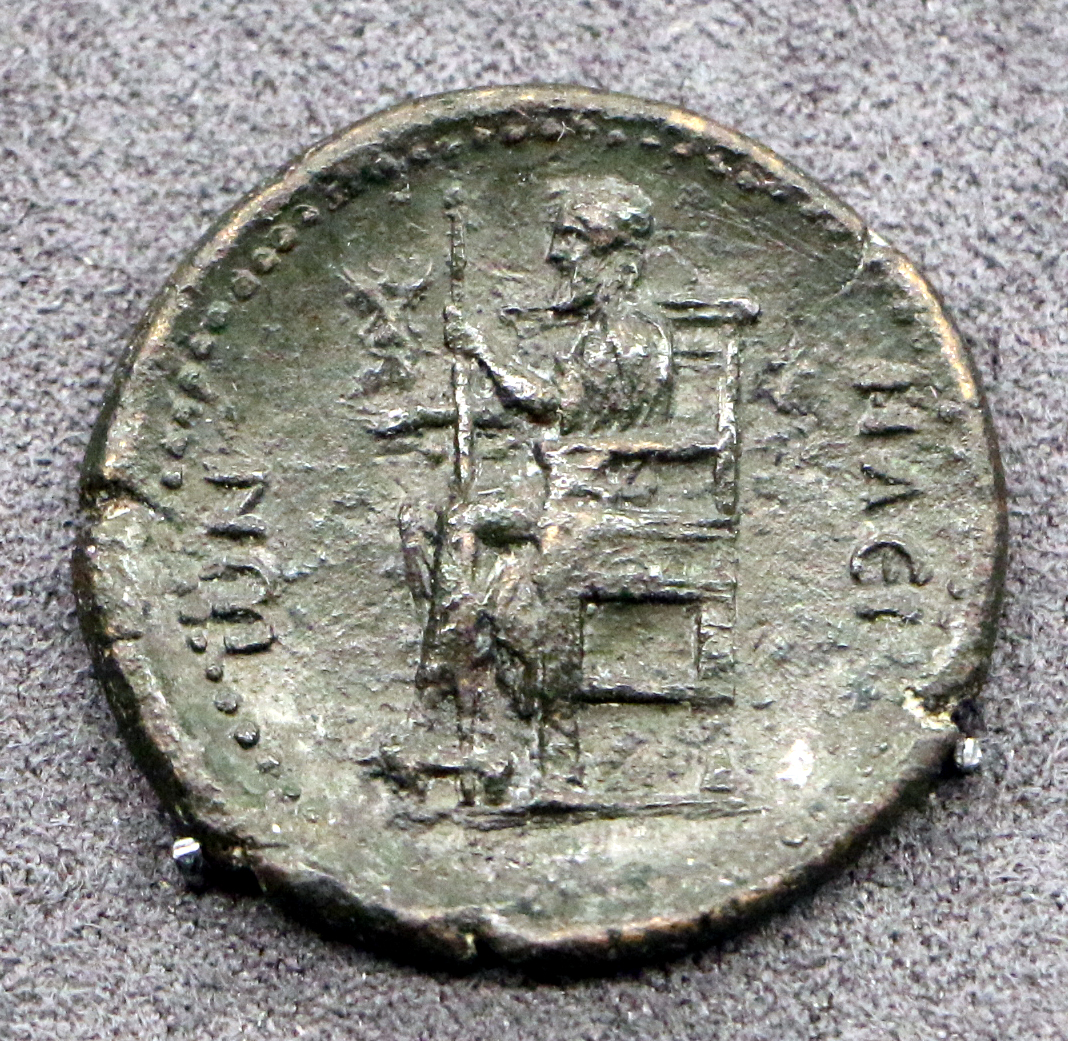 Collections of the Museo archeologico nazionale (Florence)